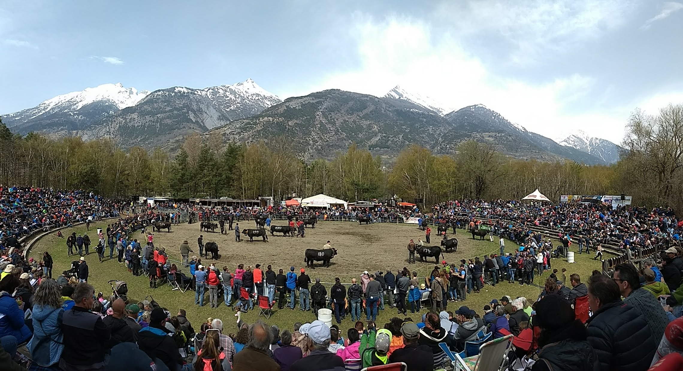 Fights between Hérens cattle are watched by thousands of locals and tourists in Valais, Switzerland. This photograph is of a qualification contest in "Goler" near Raron in the canton of Valais